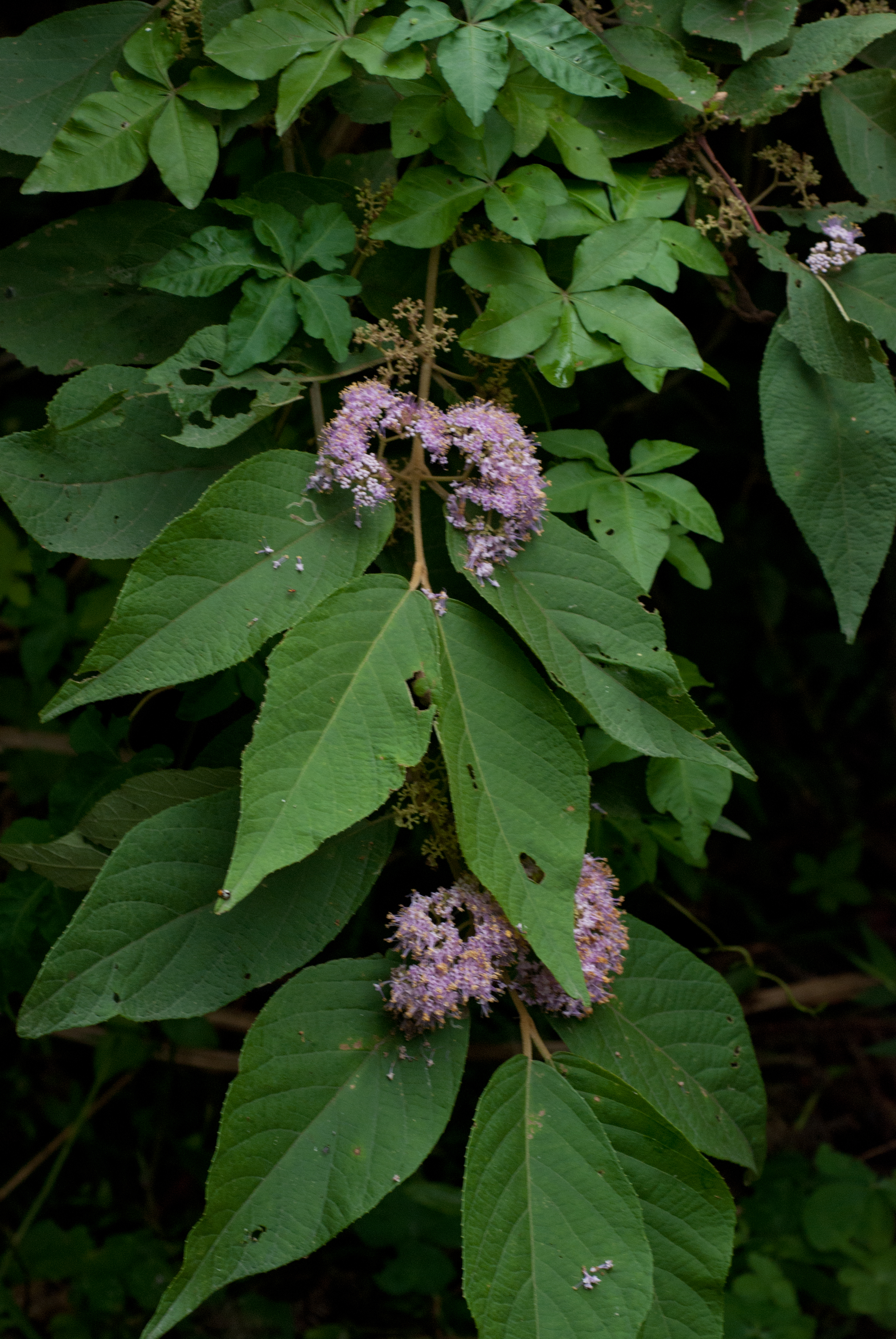 Callicarpa formosana var. formosana.